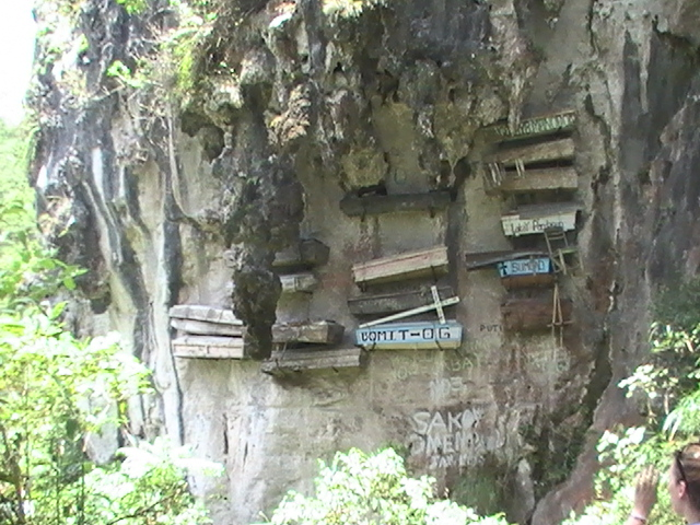 The Hanging Coffins of Sagada. Echo Valley, Sagada, Mountain Province, Philippines.